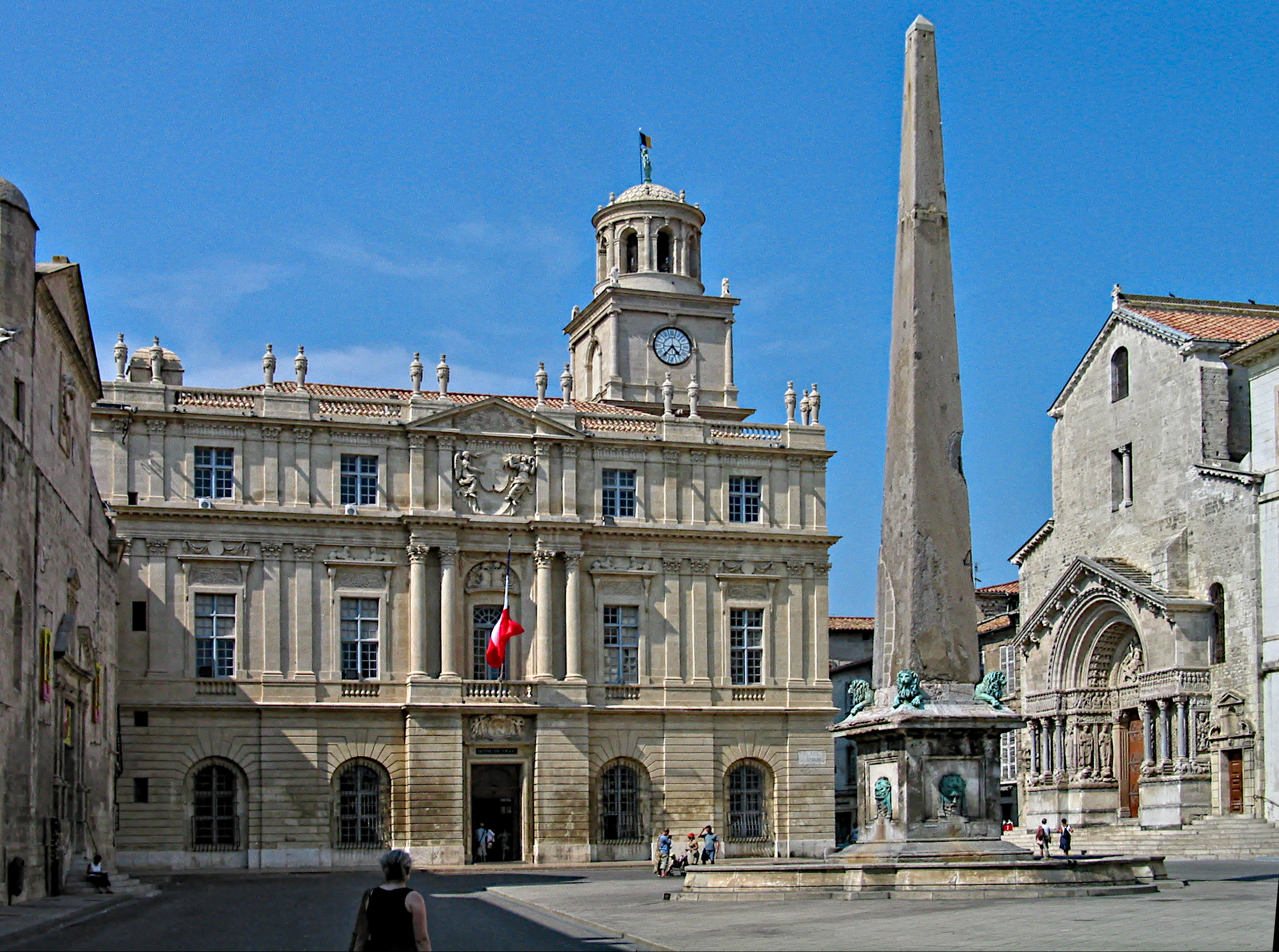 Arles, Place de la Republique, looking north; left: Hôtel de Ville; centre: Fountain with Obelisk; right: Portal of St. Trophime